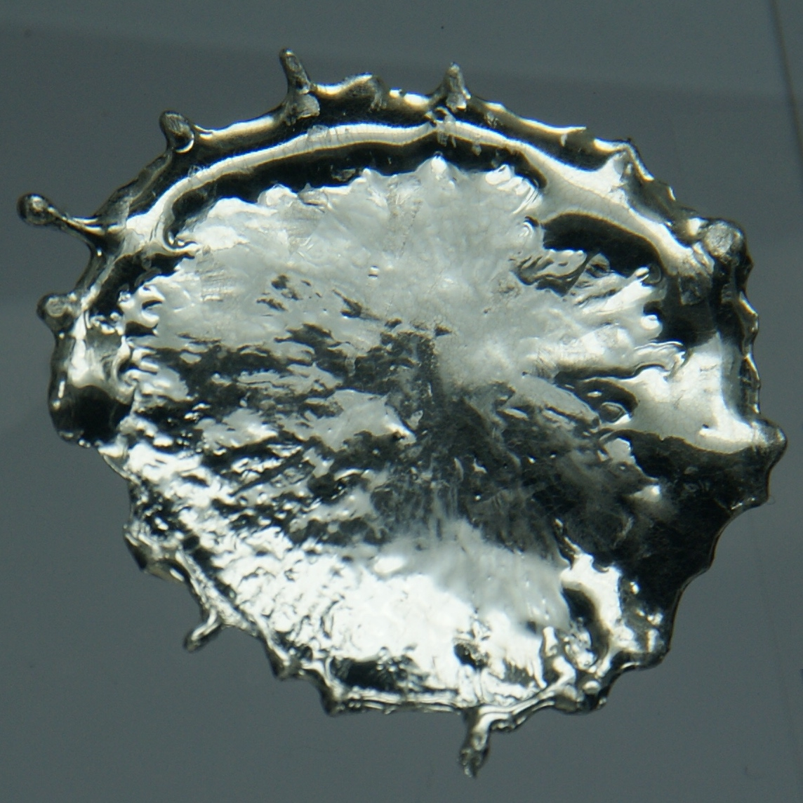 Tin blob